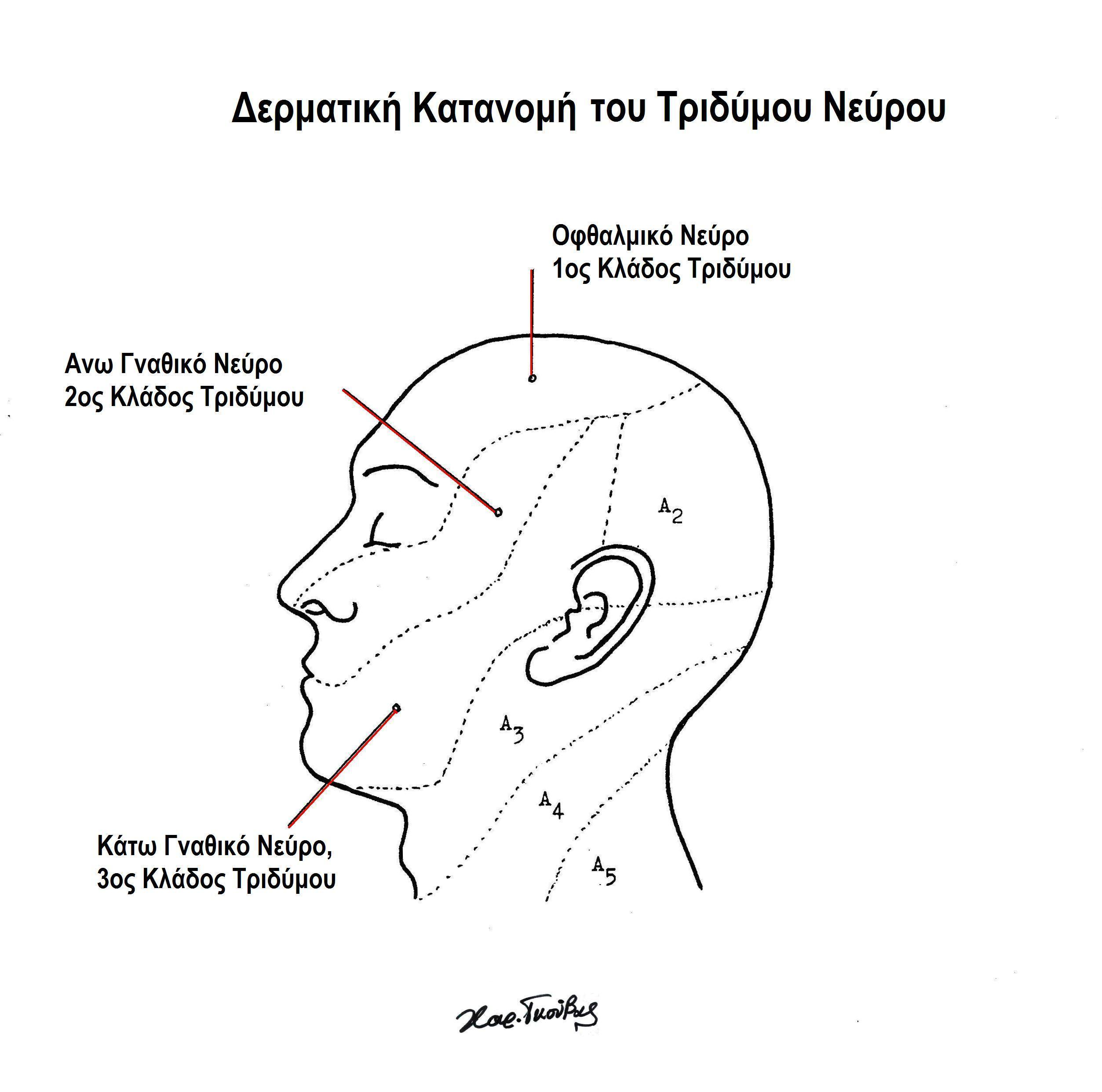 Trigeminal nerve